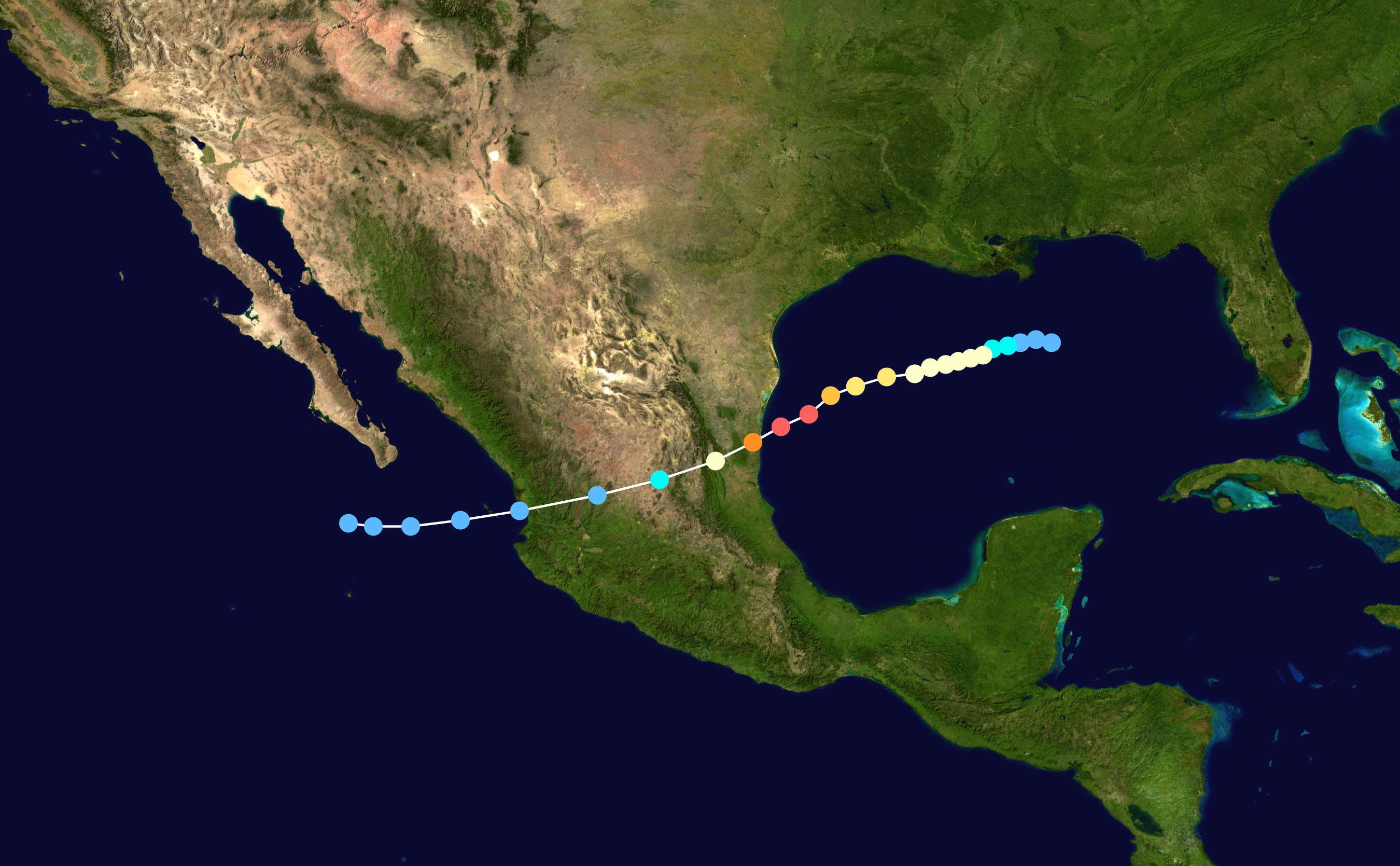 Hurricane Anita (1977) track. Uses the color scheme from the Saffir-Simpson Hurricane Scale.